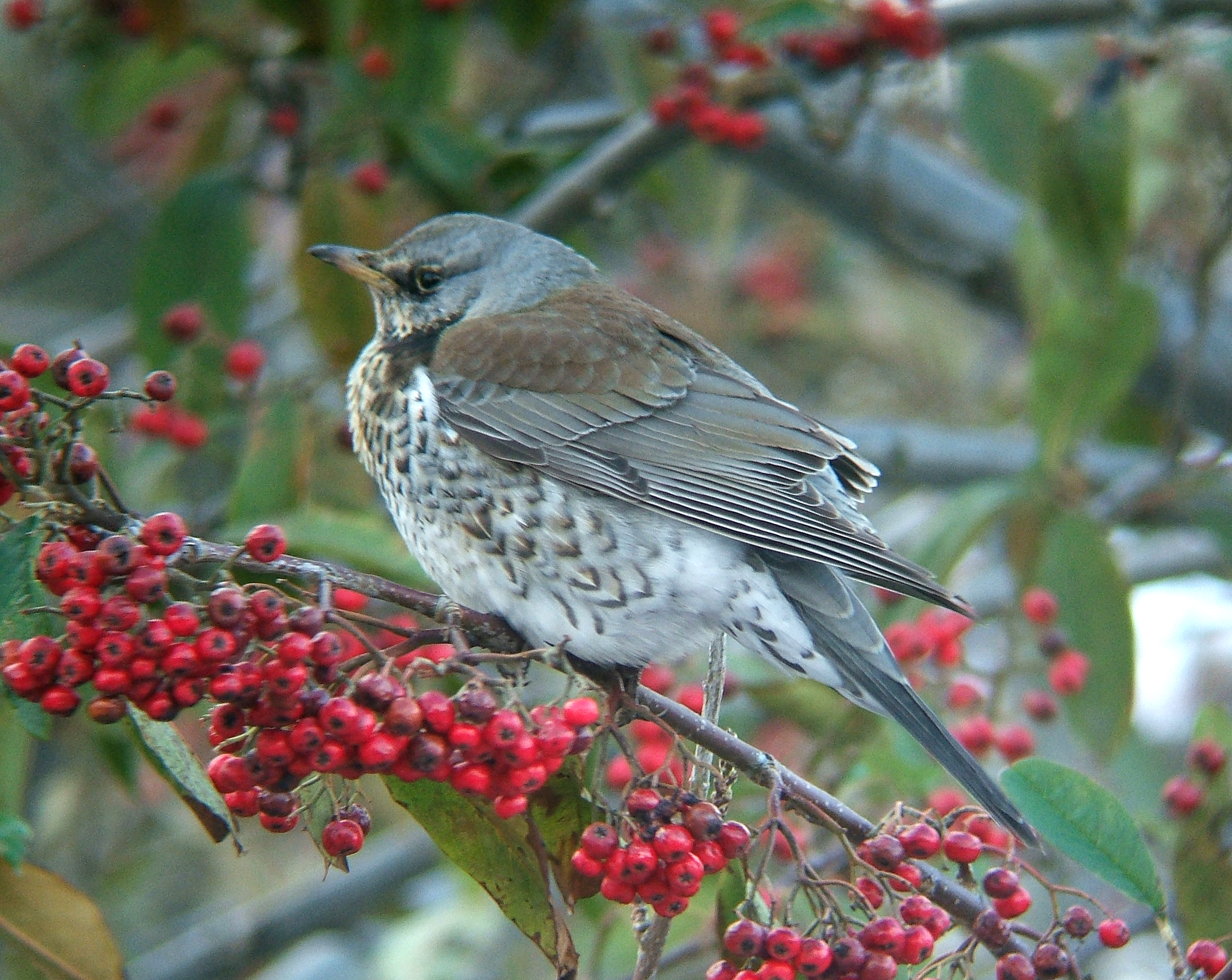 Turdus pilaris feeding on Cotoneaster frigidus berries. Jesmond Dene, Northumberland, UK.